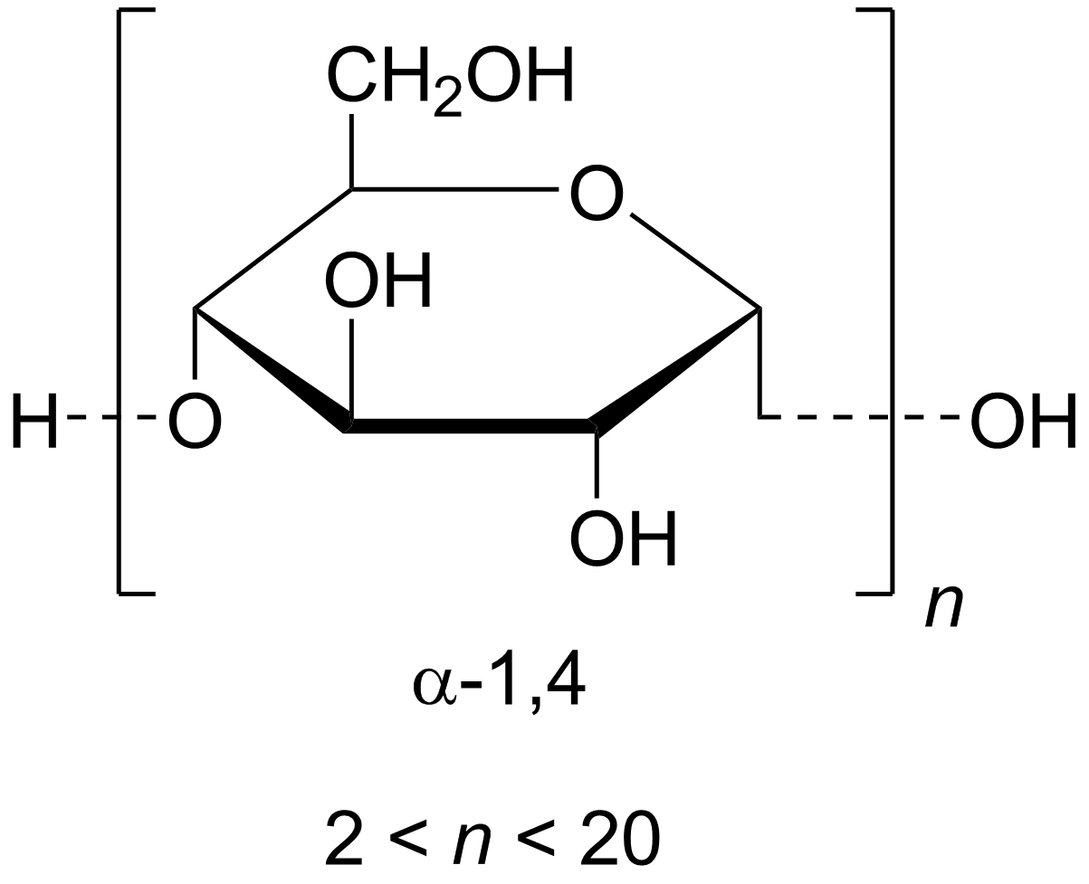 chemical structure of maltodextrin